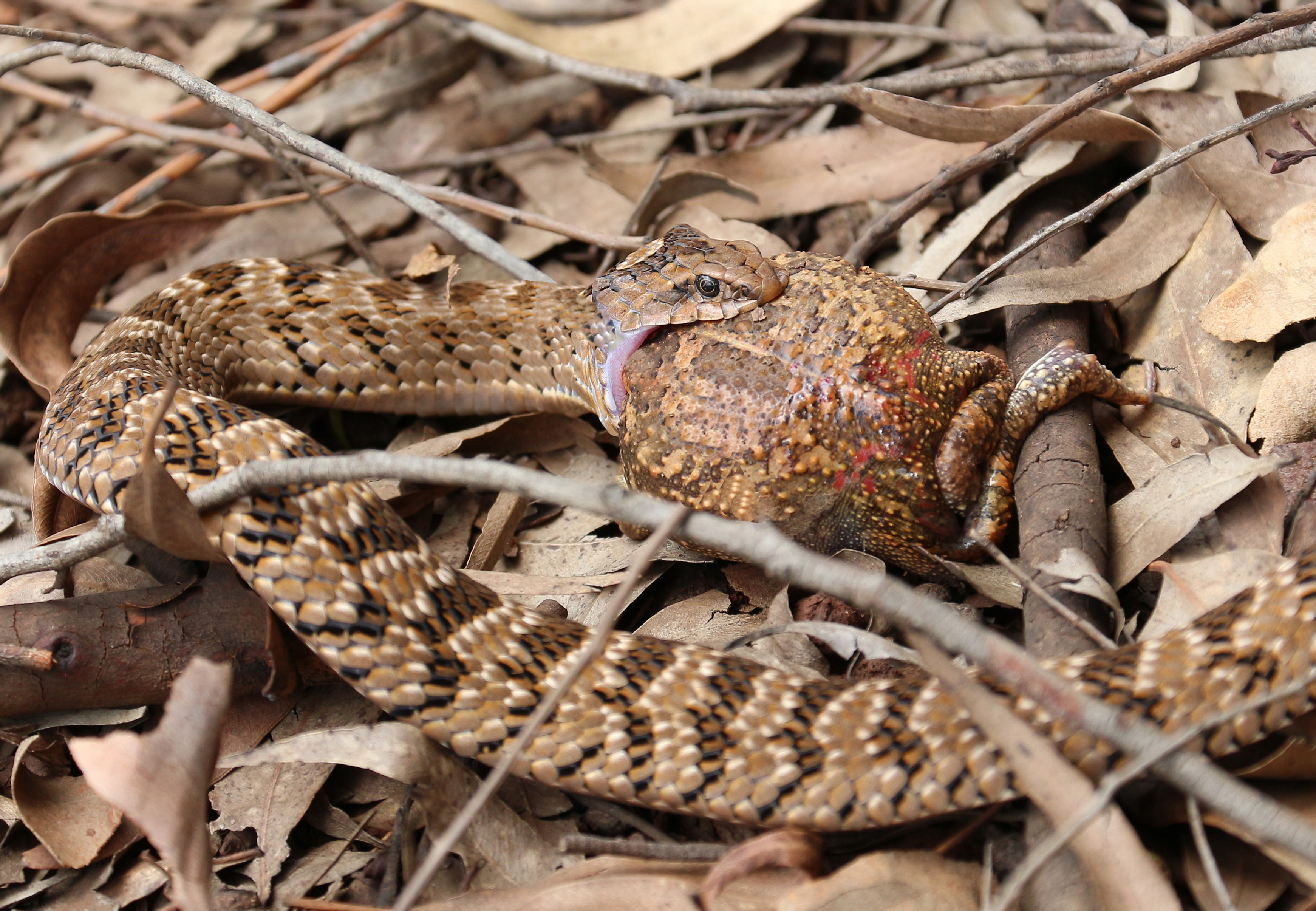 Causus rhombeatus eating a frog in Mlilwane Wildlife Sanctuary, Swaziland